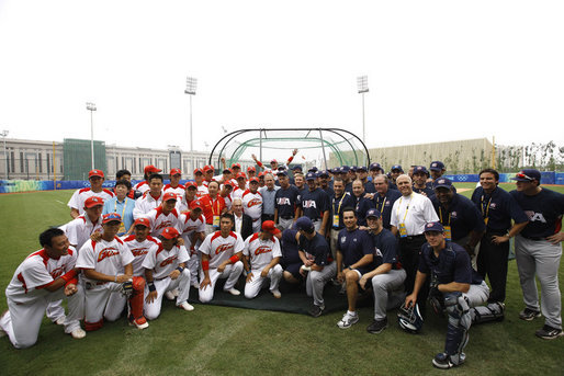 President George W. Bush poses for photos with members of the U.S. and China's men's Olympic baseball teams prior to a practice game between the two teams Monday, Aug. 11, 2008, at the 2008 Summer Olympic Games in Beijing.